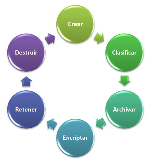 Information Lifecycle Management